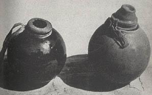 World War II Japanese Type 4 "Ceramic" grenade.